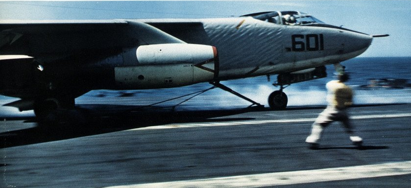 A U.S. Navy North Douglas A-3B Skywarrior (BuNo 147648) of Heavy Attack Squadron VAH-8 "Fireballers" is launched from the aircraft carrier USS Constellation (CVA-64). VAH-8 was assigned to Carrier Air Wing 15 (CVW-15) aboard the Constellation for a deployment to Vietnam from 12 May to 3 December 1966. Note the stress wrinkles on the fuselage.